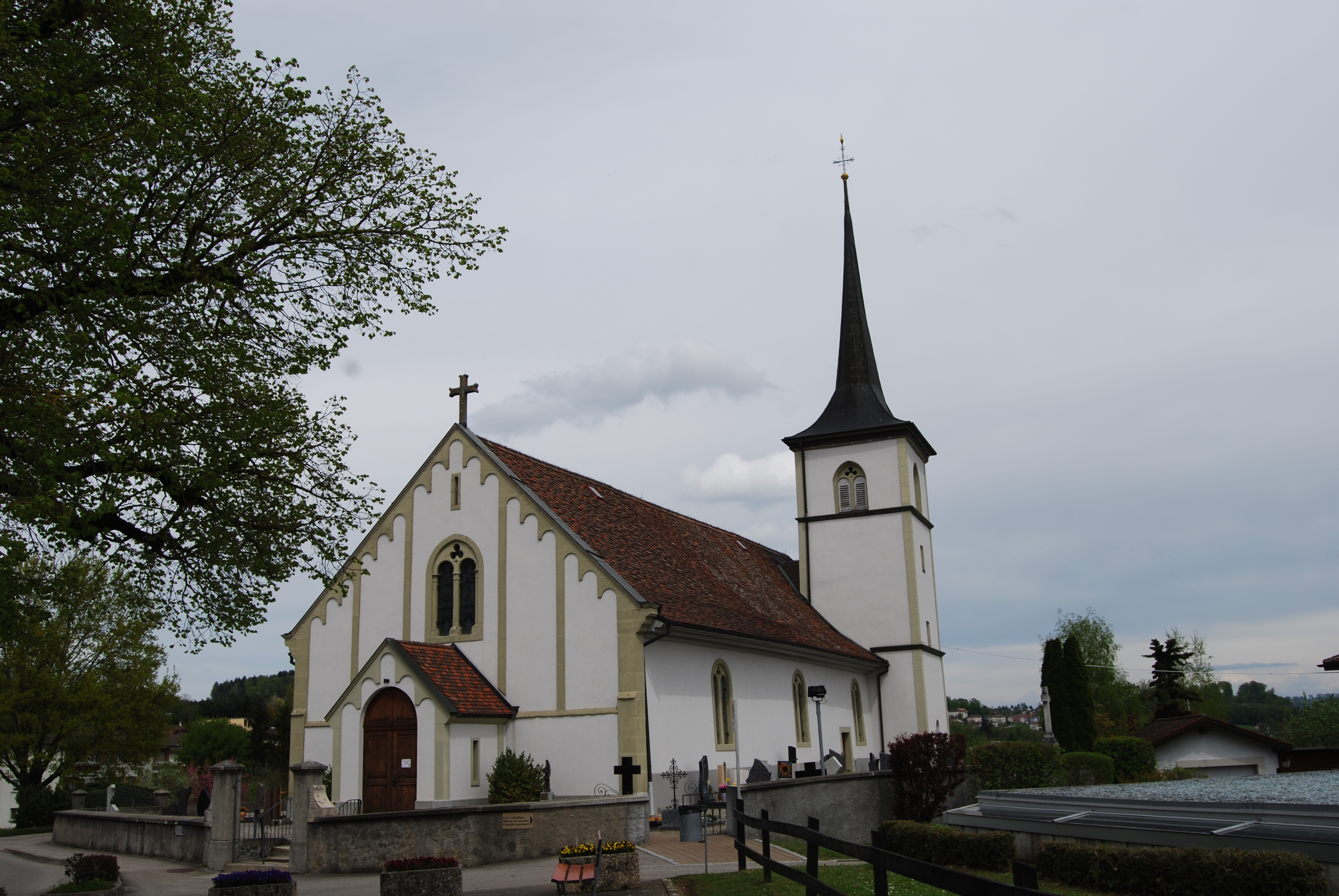 Catholic Church of Matran, canton of Fribourg, Switzerland